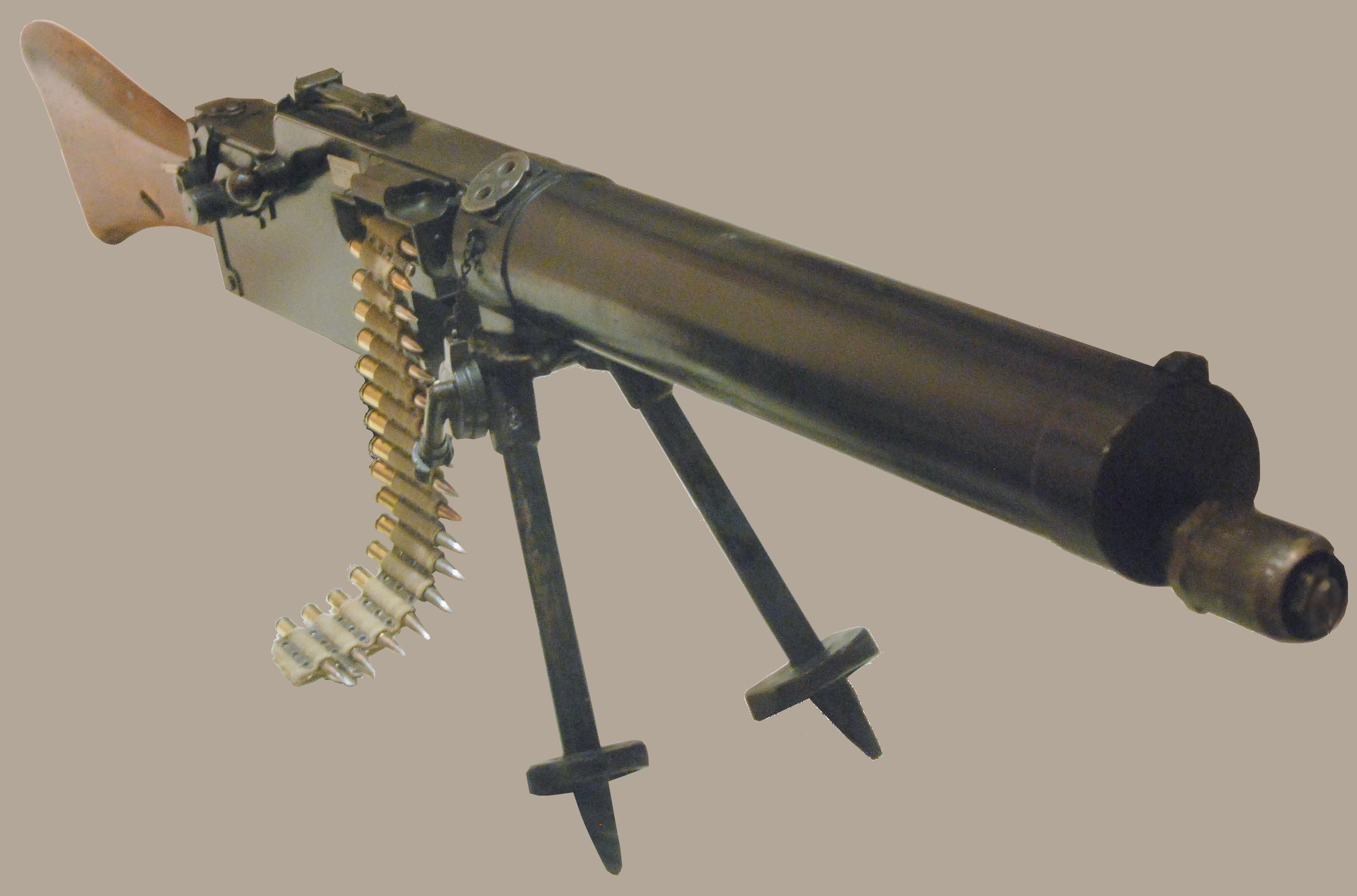 German machine gun MG 08/15; the Verdun Memorial, Fleury-devant-Douaumont, France